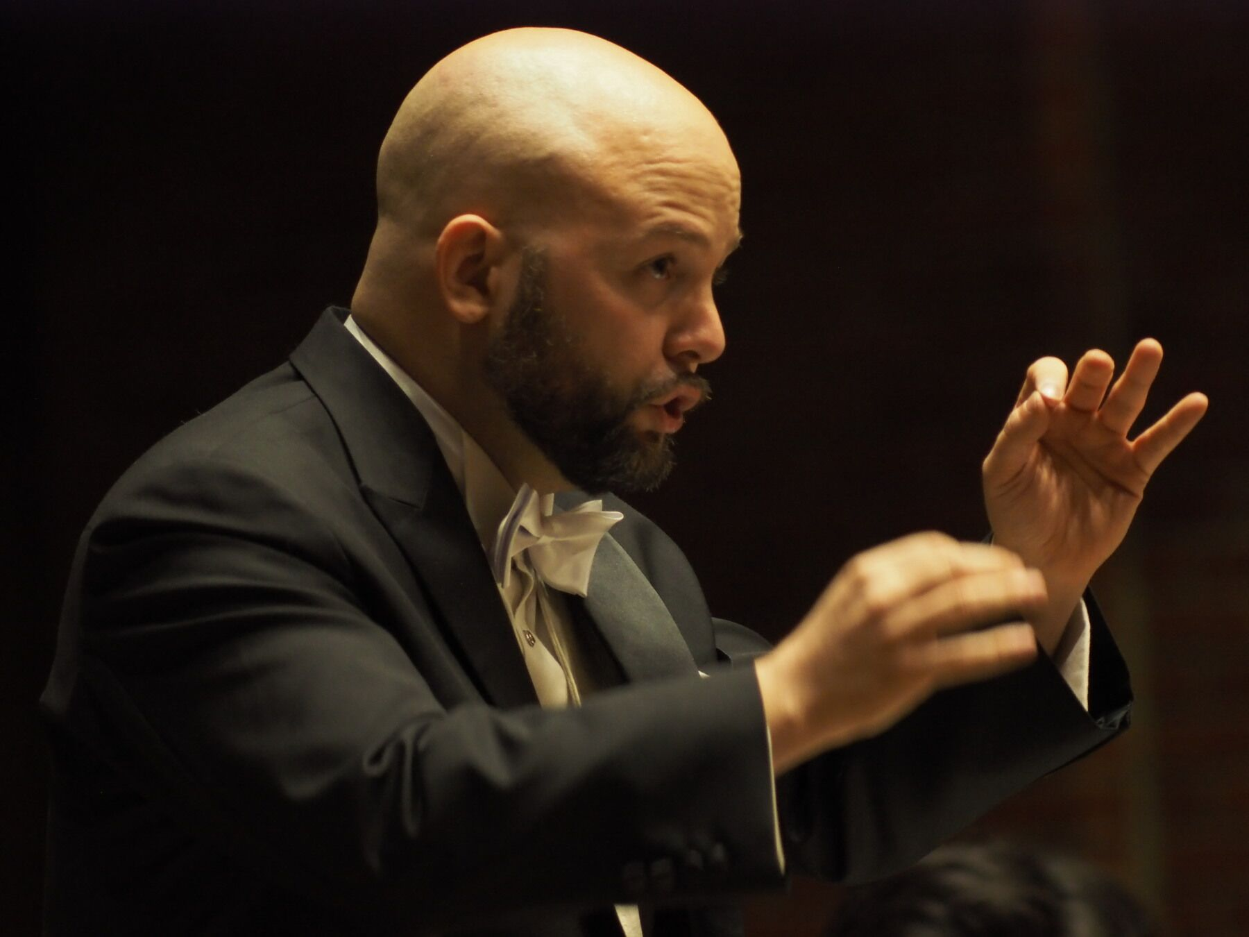 Dr. Goessl conducting